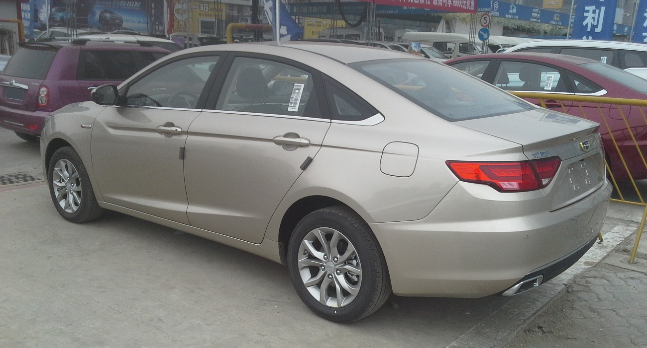 Geely Emgrand GL photographed in Yinchuan, Ningxia province, China.